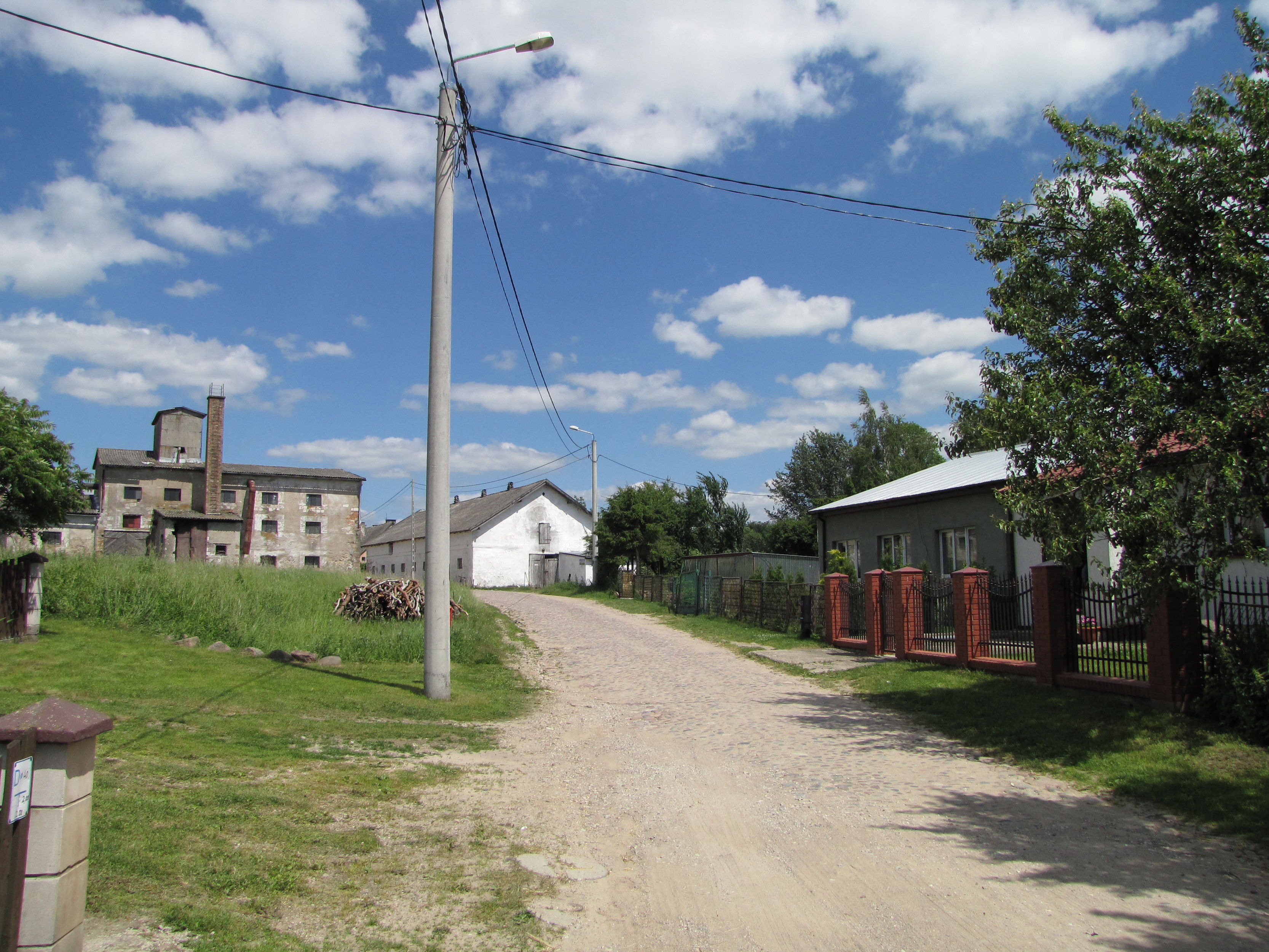 Estate „Komorowo“ nearby Biała Piska